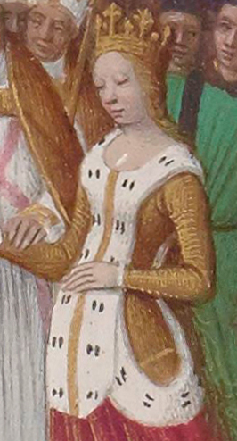 Marie de Luxembourg, Queen of France. The queen is depicted in a sideless surcoat.